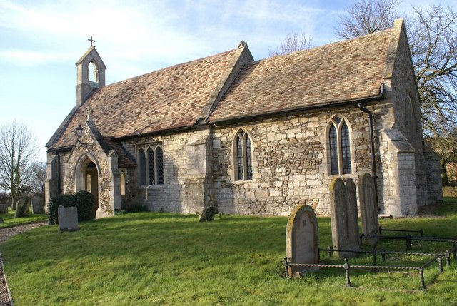 St Giles' parish church, Barham, Cambridgeshire (formerly Huntingdonshire), England, seen from the southeast. The bell from the bell-gable is now inside the church.